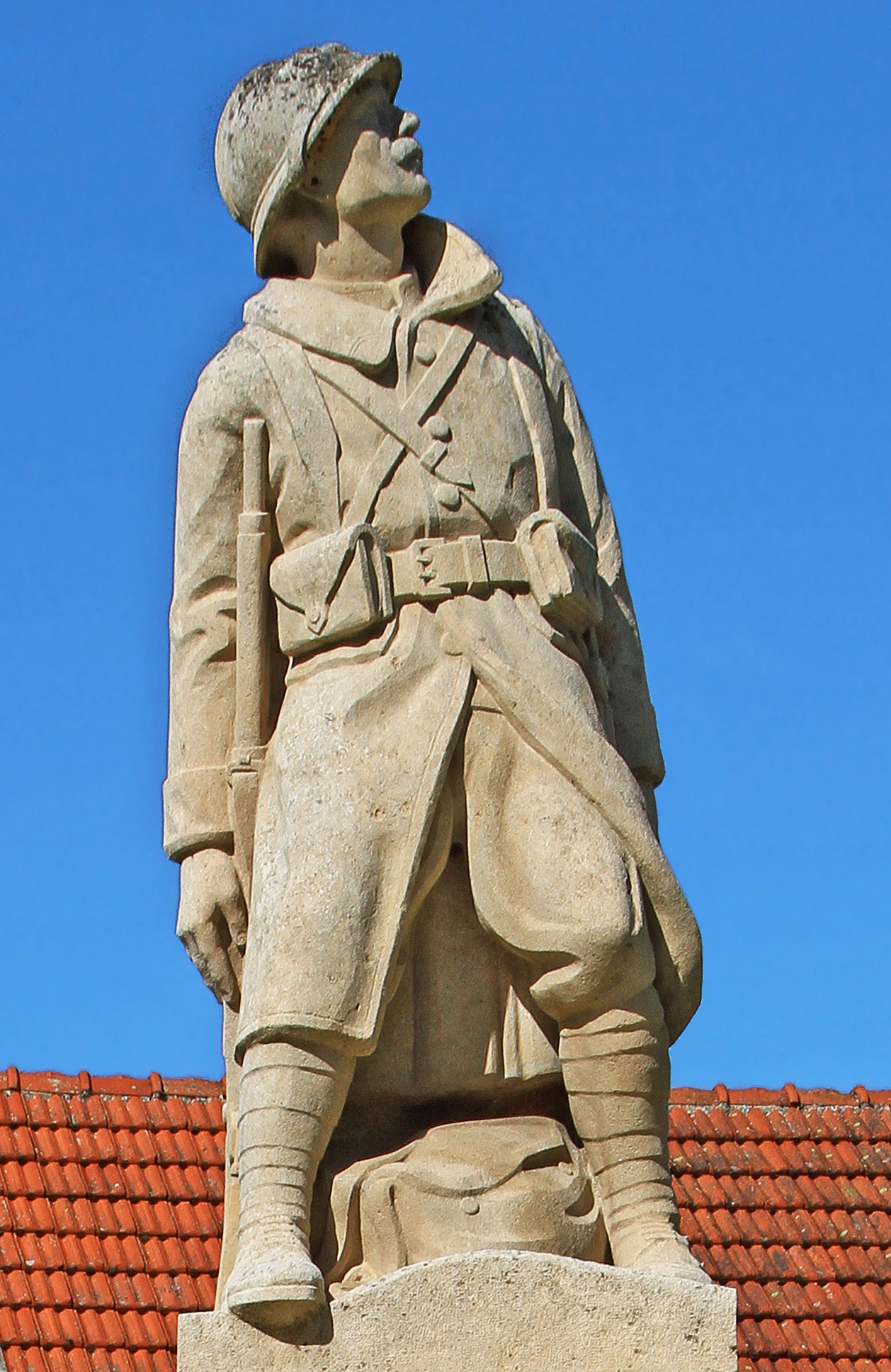 Monument aux morts de Baigneux-les-Juifs, Étormay, Billy-lès-Chanceaux, Chaume-lès-Baigneux et Oigny à Baigneux-les-Juifs